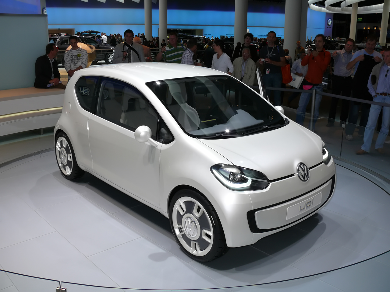 VW up! front right view